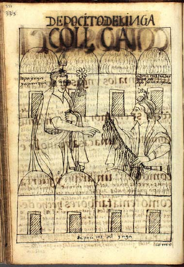 Inca Warehouse (qullqa, collca)